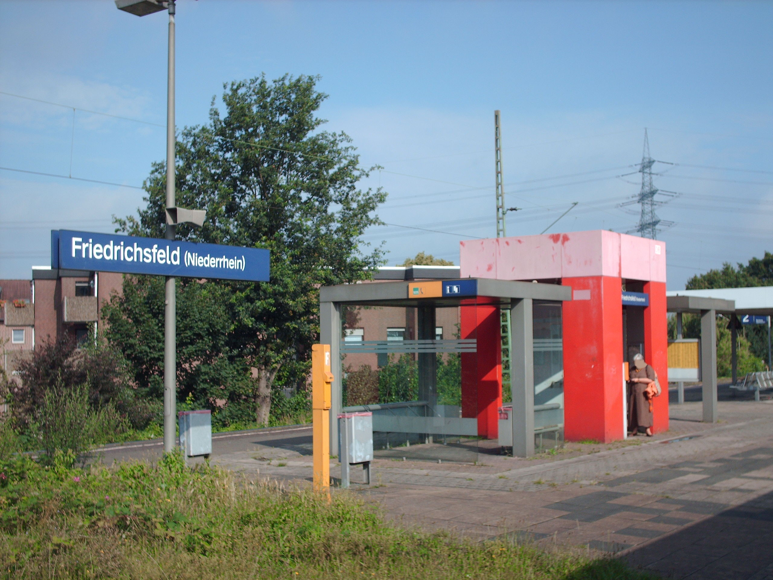 Friedrichsfeld (Niederrhein) station, Voerde, Germany check usage